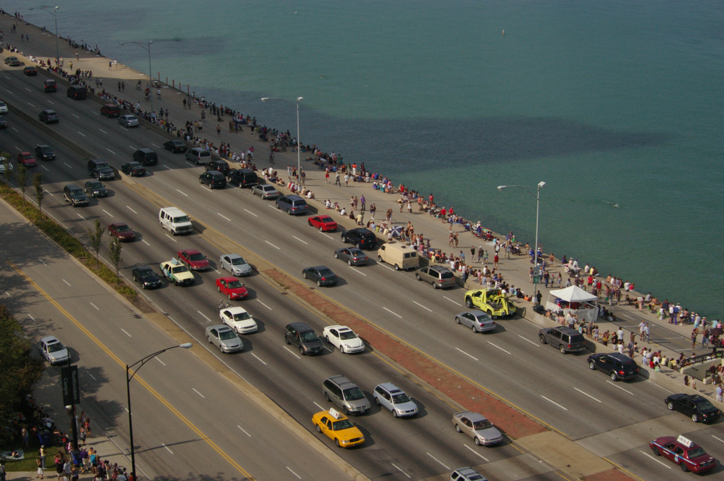 A Summer Afternoon during the 2008 Chicago_Air_and_Water_Show on Lake Shore Drive. Taken from the 11th floor of the Rubloff building (750 N Lake Shore Dr) on Northwestern University's downtown campus (Northwestern University Medical School) in Chicago, IL, also near Chicago Avenue.